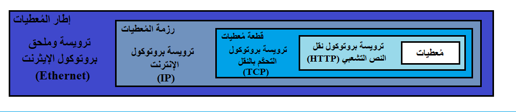 Data Encapsulation according to TCP/IP model. Data and Headers sizes are not relative.